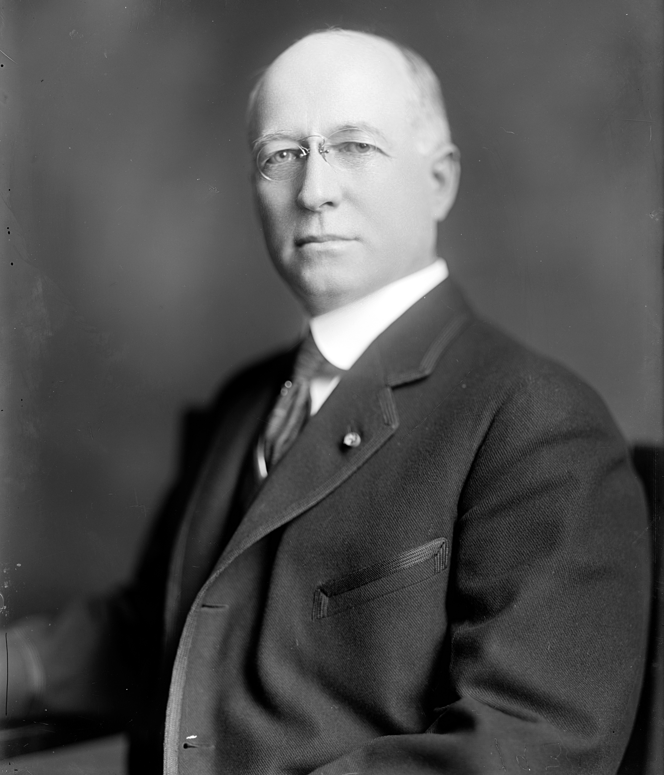 Thomas S. Crago, US Representative from Pennsylvania